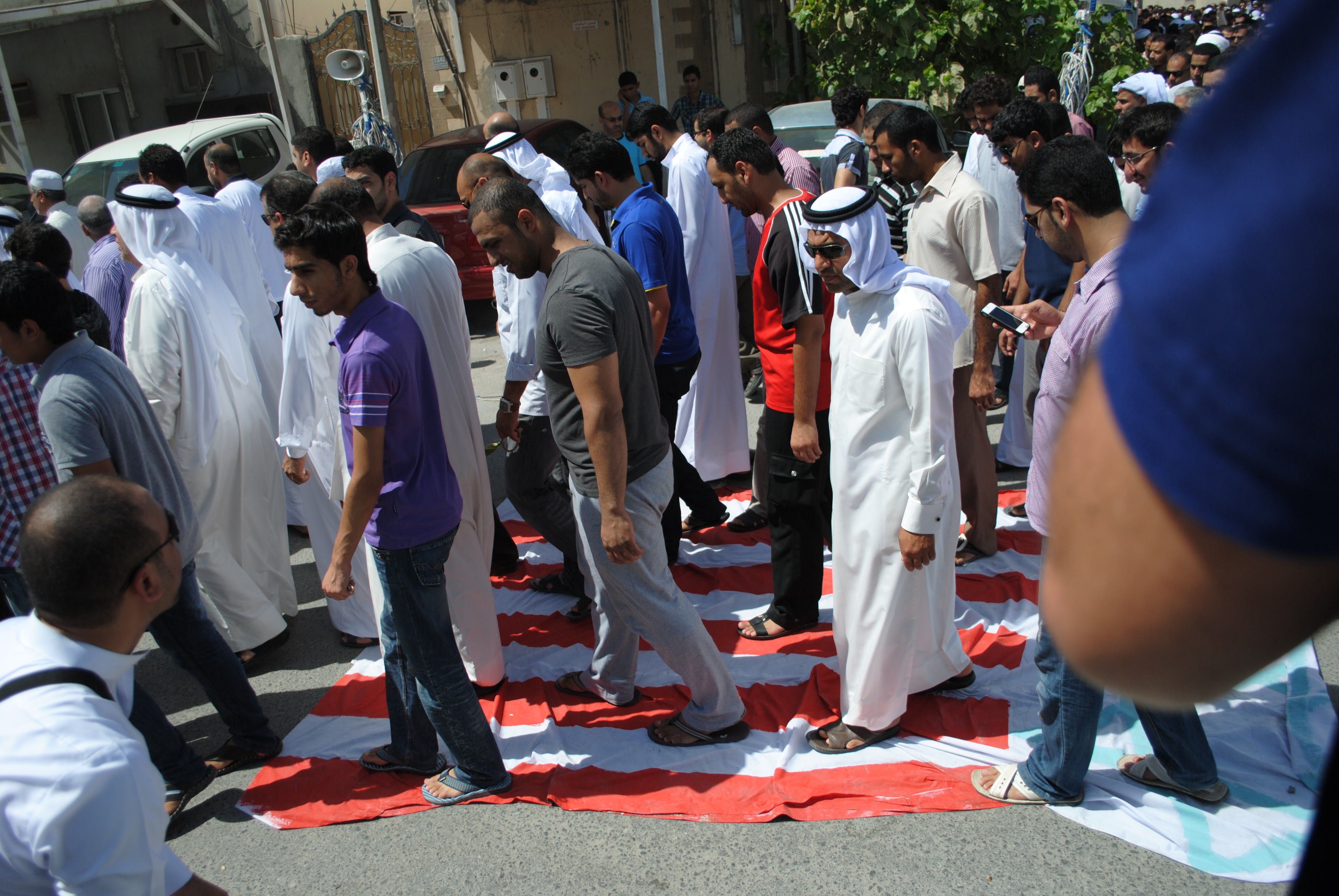 Participants in Bahrain step over USA and Israel flags during a protest against an anti-Islamic film Innocence of Muslims